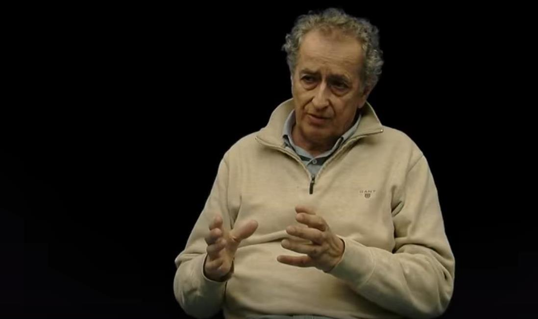 António-Pedro Vasconcelos. CIAC 2013 Director Talk Initiative: António Pedro Vasconcelos é um dos realizadores do Cinema Novo Português, com o filme Perdido por Cem, de 1973. Foi também responsável por alguns dos maiores sucessos comerciais nas salas portuguesas, nomeadamente com O Lugar do Morto, em 1984, e Jaime, em 1999. Com este último conseguiu a Concha de Prata do Festival Internacional de Cinema de San Sebastian, e em Portugal, os Globos de Ouro para Melhor Filme e Melhor Realizador. Os seus mais recentes filmes são Os Imortais, de 2003, Call Girl, de 2007, e A Bela e o Paparazzo, de 2010.